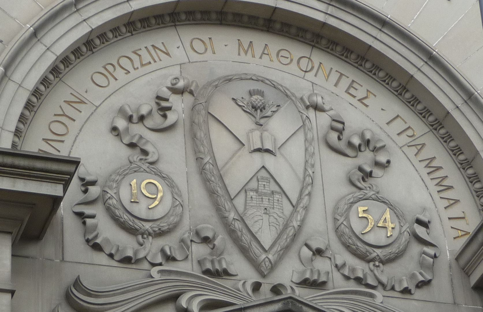 Greek inscription in Edinburgh, Scotland ΔΙΠΛΟΥΝ ΟΡΩΣΙΝ ΟΙ ΜΑΘΟΝΤΕΣ ΓΡΑΜΜΑΤΑ. (in Greek)